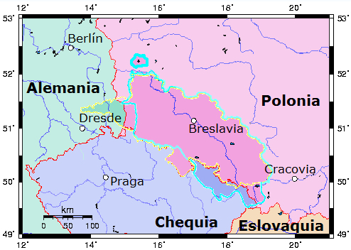 Prussian Silesia, 1871, outlined in yellow; (Austrian) Silesia before the annexion by Prussia in 1740, outlined in cyan. Map showing post-1994 state borders.